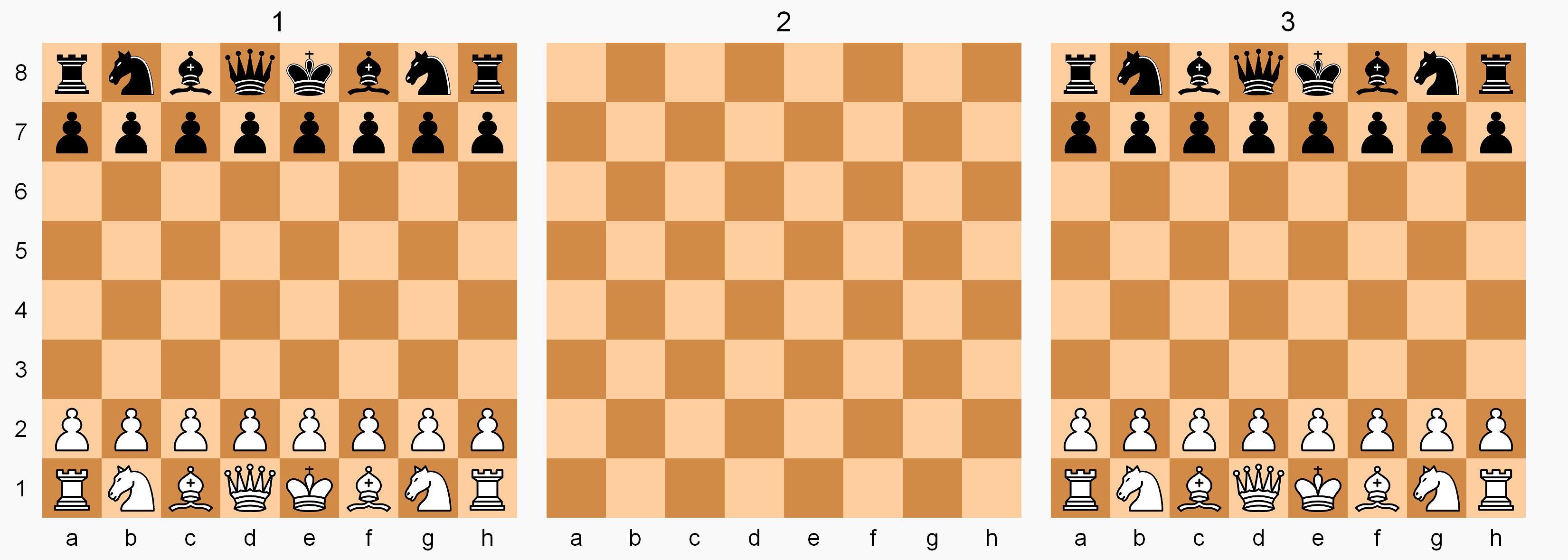 Using the great free-use chess icons fashioned by David Benbennick (User:Dbenbenn). All done in MSPAINT.